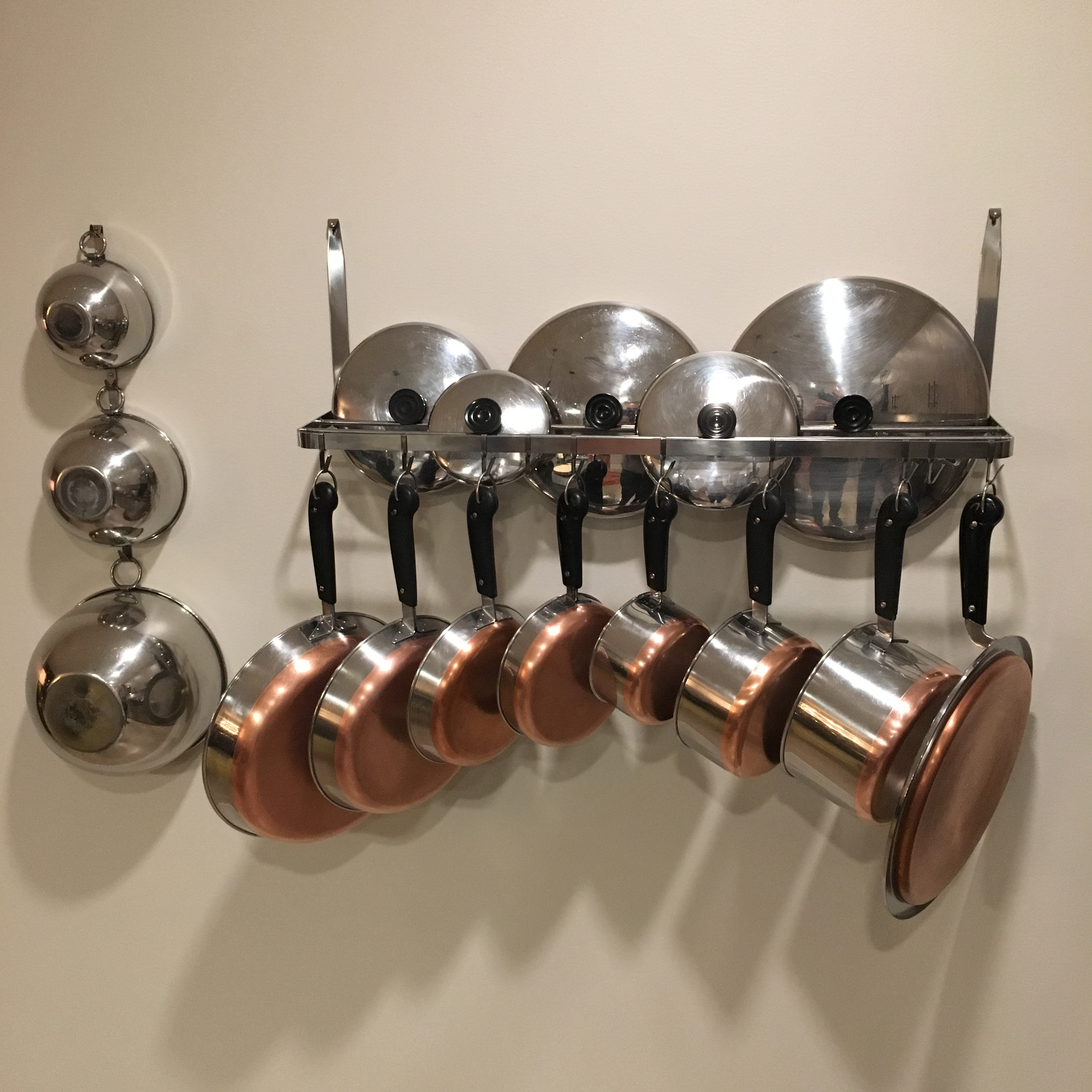 Vintage Revere Ware, manufactured before 1968 and carrying the prized "Process Patent" makers mark on the thick copper bottom, is finding its way back into modern kitchens.